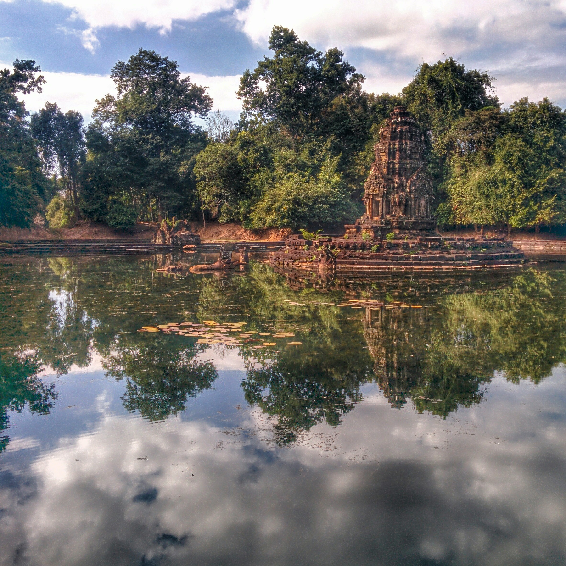 The central pond of Peak Nean, Angkor Cambodia.